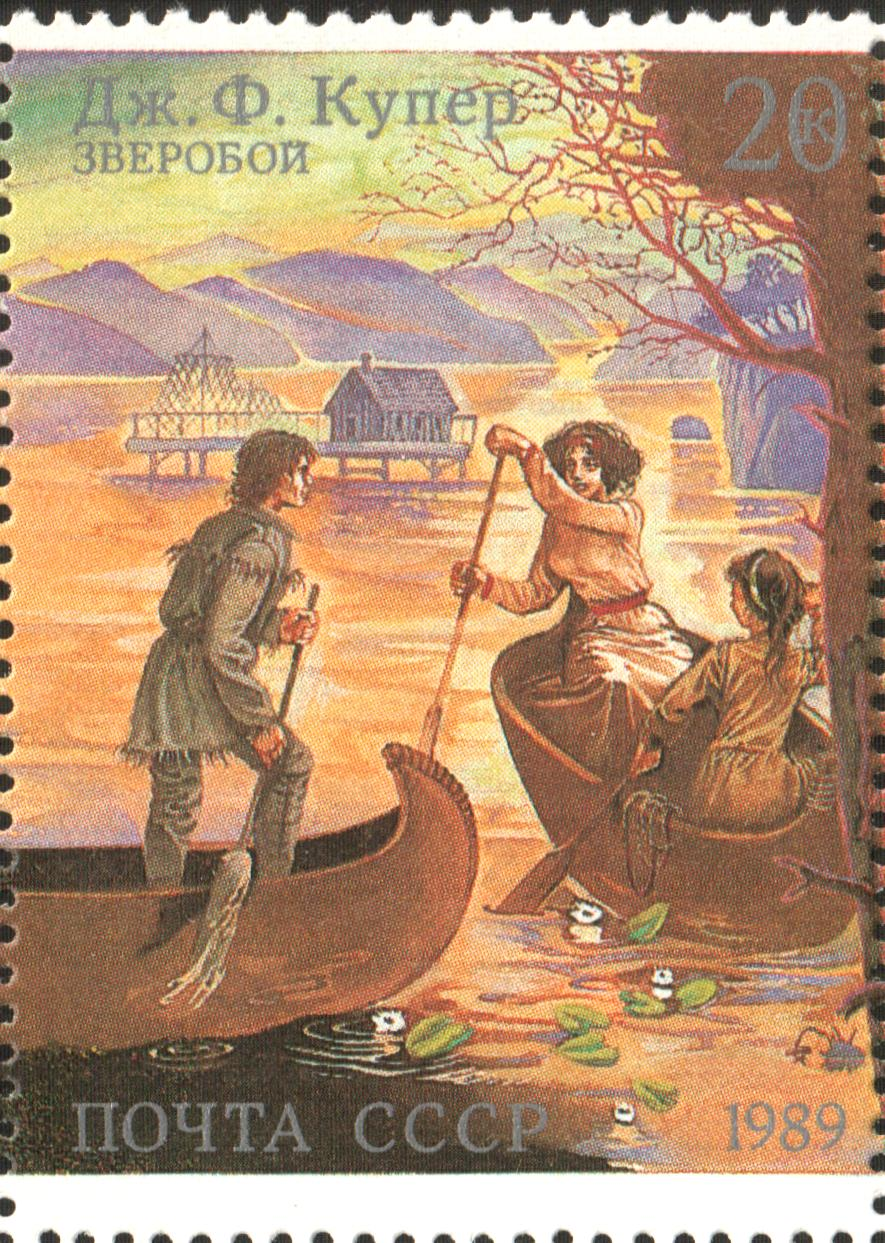 A USSR stamp